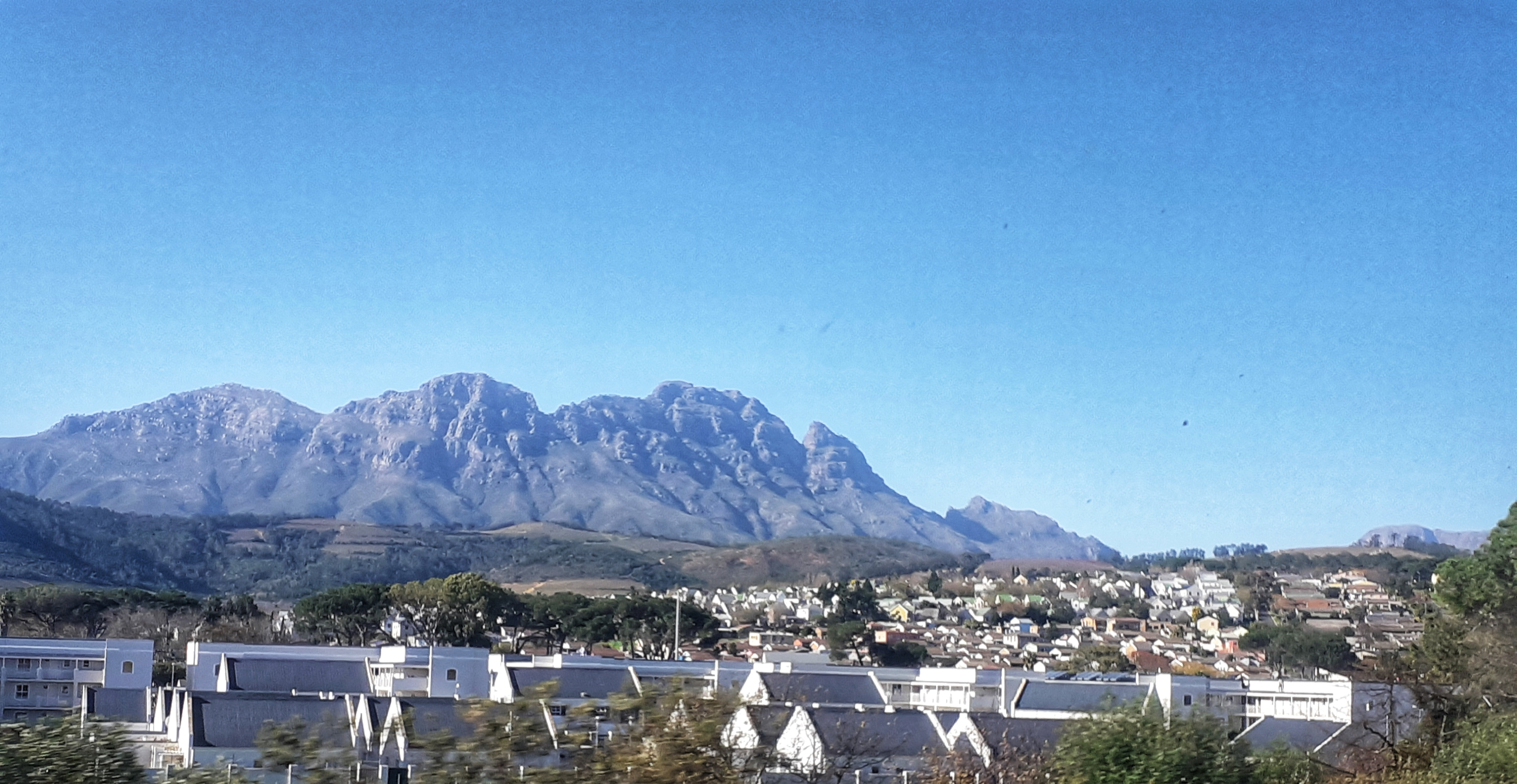 View of Nuutgevonden Estate, Cloetesville and Welgewonden Estate in the background and the Simonsberg Mountain in the background